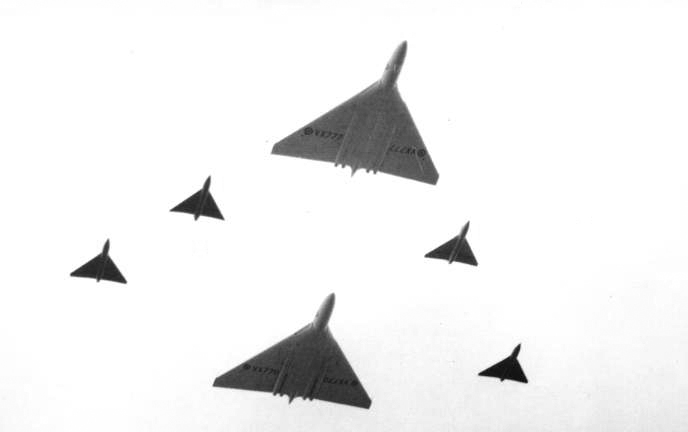 Four Avro 707s and two Vulcan prototypes at the SBAC Show Farnborough